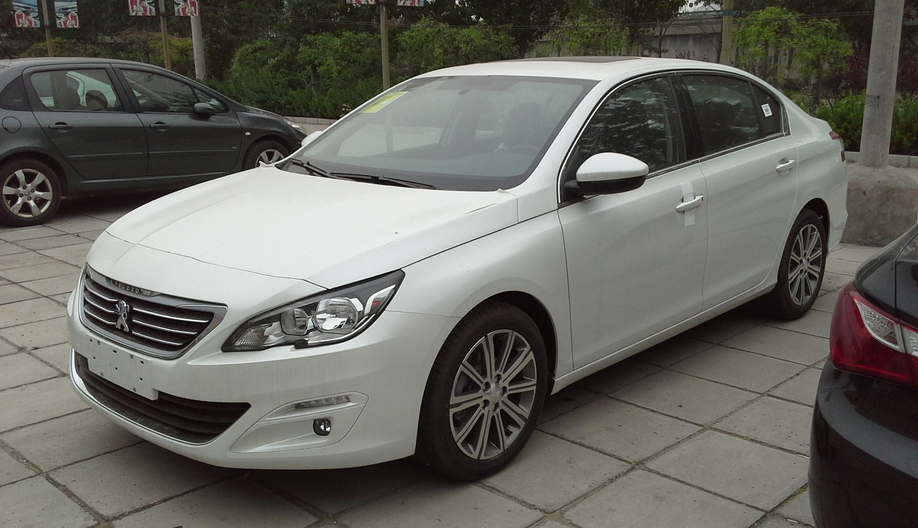 Peugeot 408 II photographed in Beijing, China.